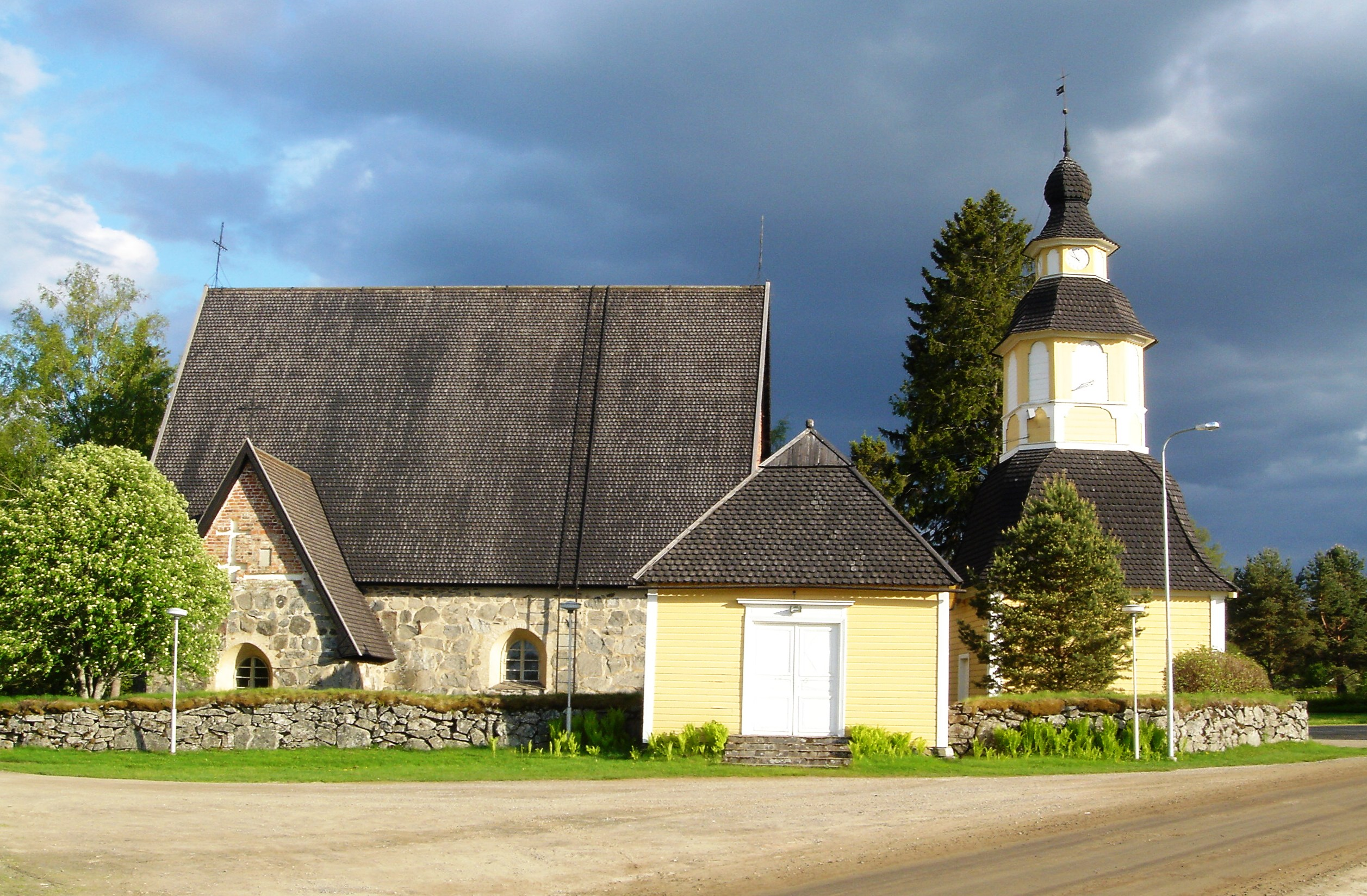 Medieval Church of Tuulos in Tuulos, Finland. Building started probably in 1480.